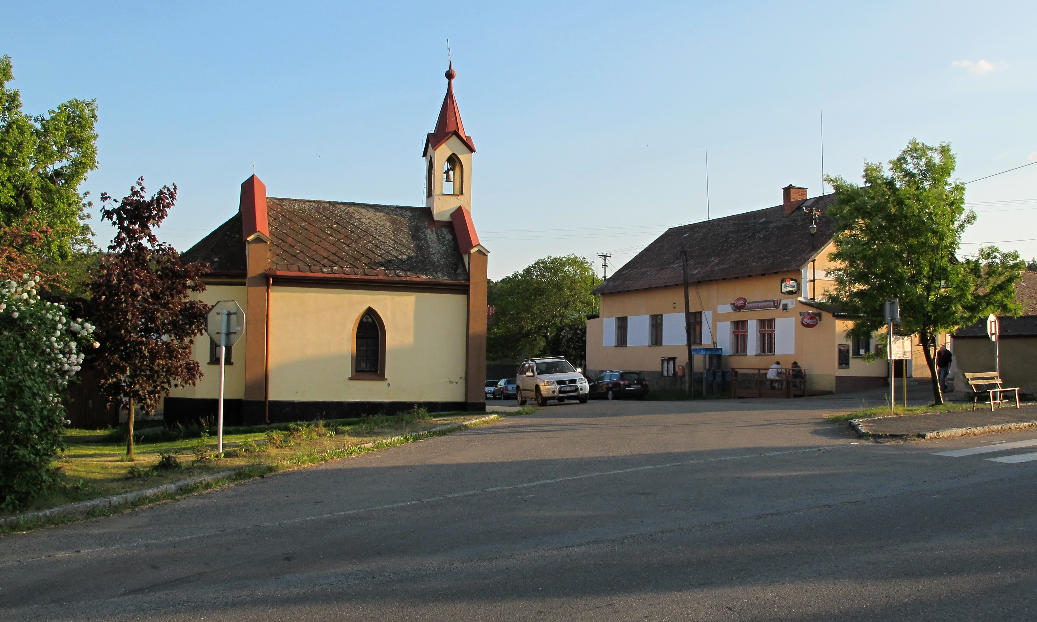 Chapel and pub in Drásov in Příbram District (Czech republic)